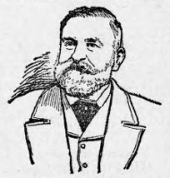 Edward Cowey, President of the Yorkshire Miners' Association, while attending the 1895 Trades Union Congress